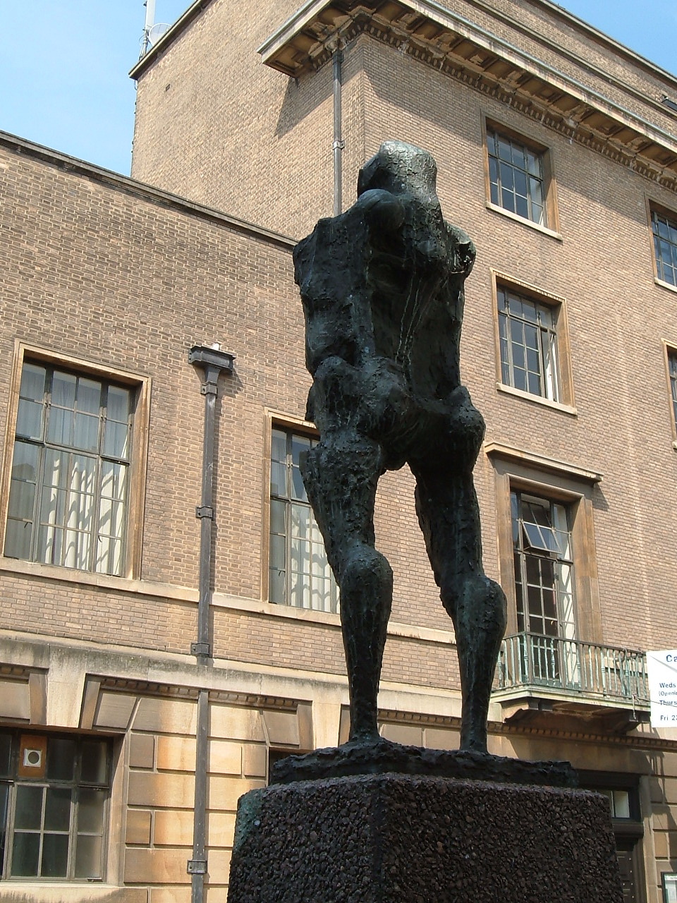 Talos, the bronze man, guardian of Minoan Crete, the first civilization in Europe. Sculpture by Michael Ayrton, viewed from behind. On Guildhall Street behind the Lion Yard Centre in Cambridge, England. Taken June 2006, by Dr Zak